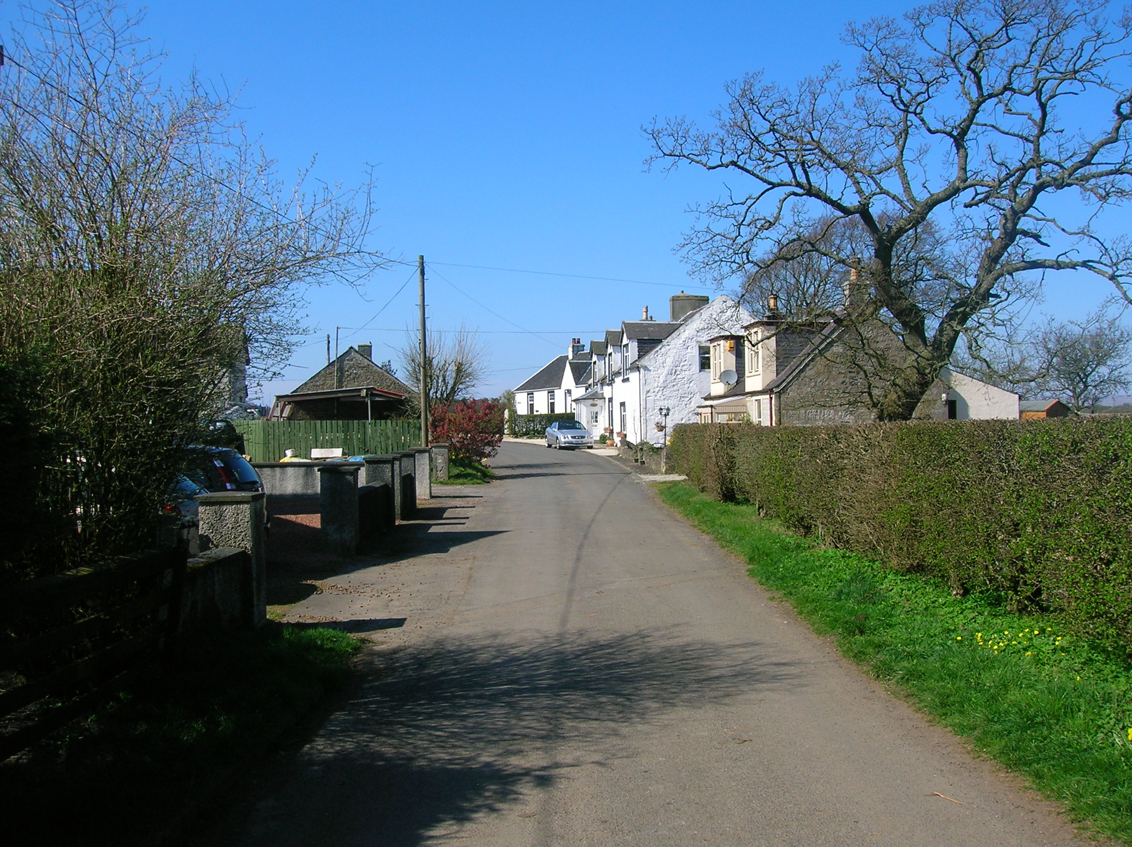 The 'mainstreet' of Auchentiber, North Ayrshire, Scotland. 2007. Looking towards the main road.